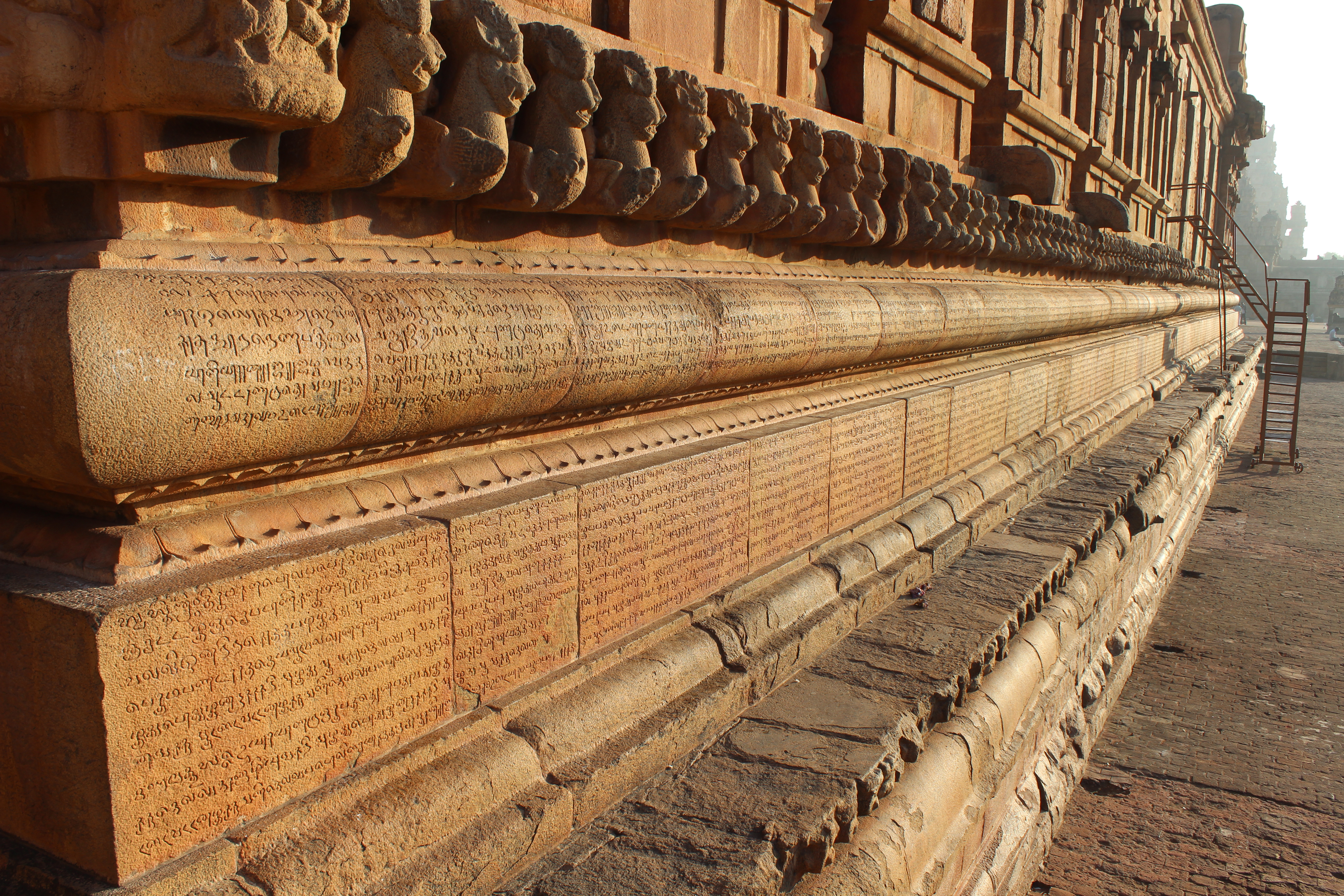 Tamil Inscriptions in Thanjavur Brahadeeshwara Temple written 1000 years ago